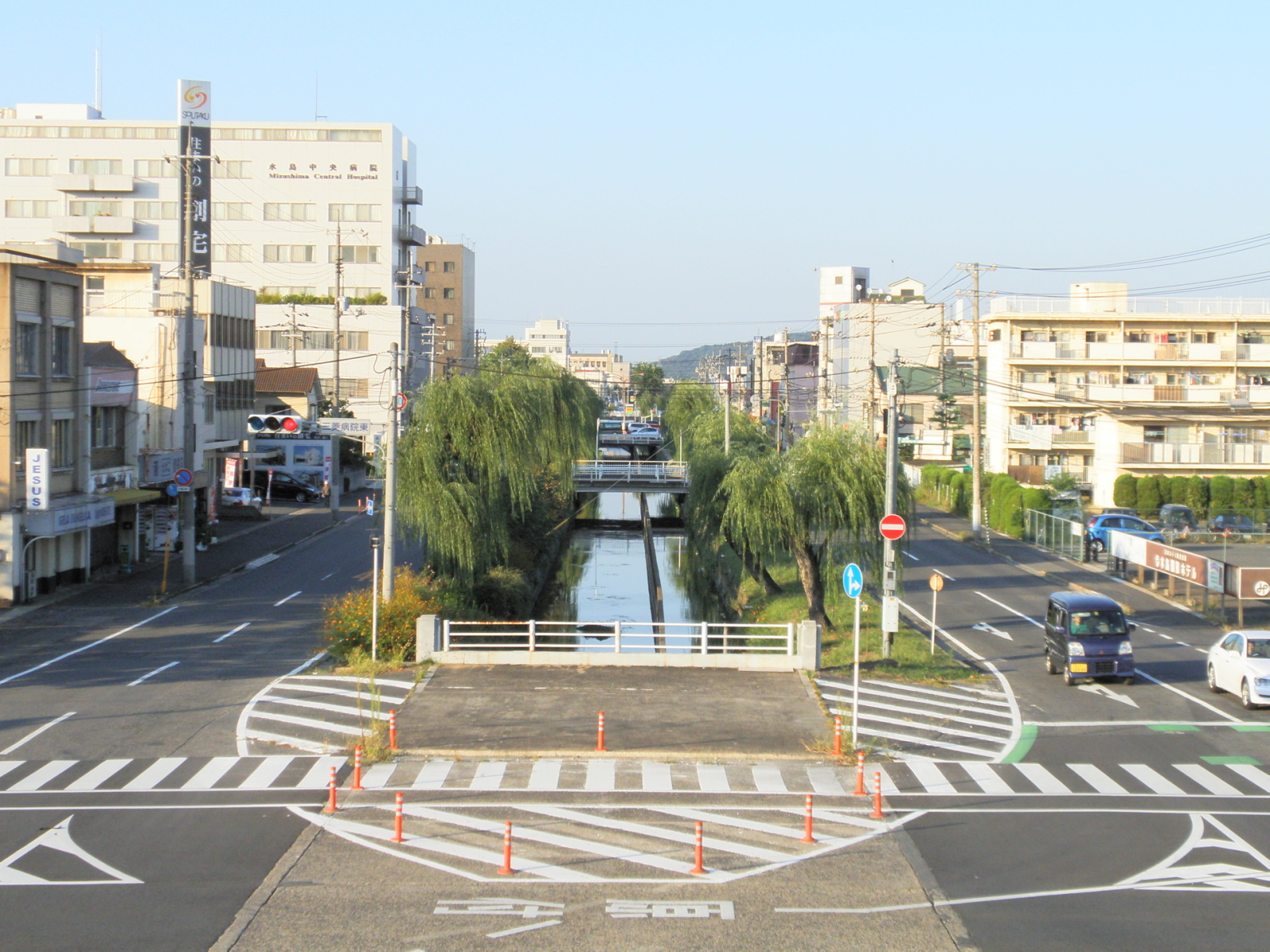 Hakken River in Mizushima, Kurashiki, Okayama prefecture